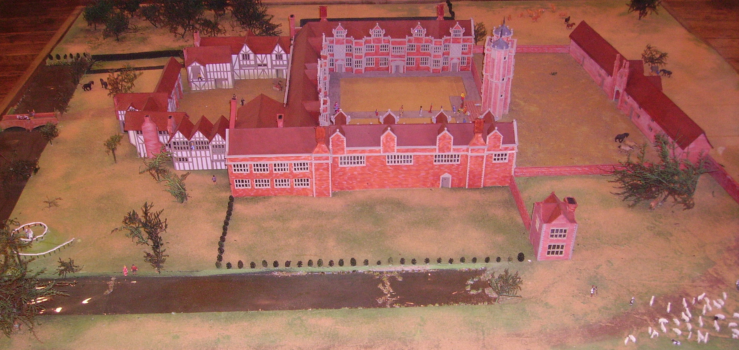 view of Sissinghurst Castle, United Kingdom